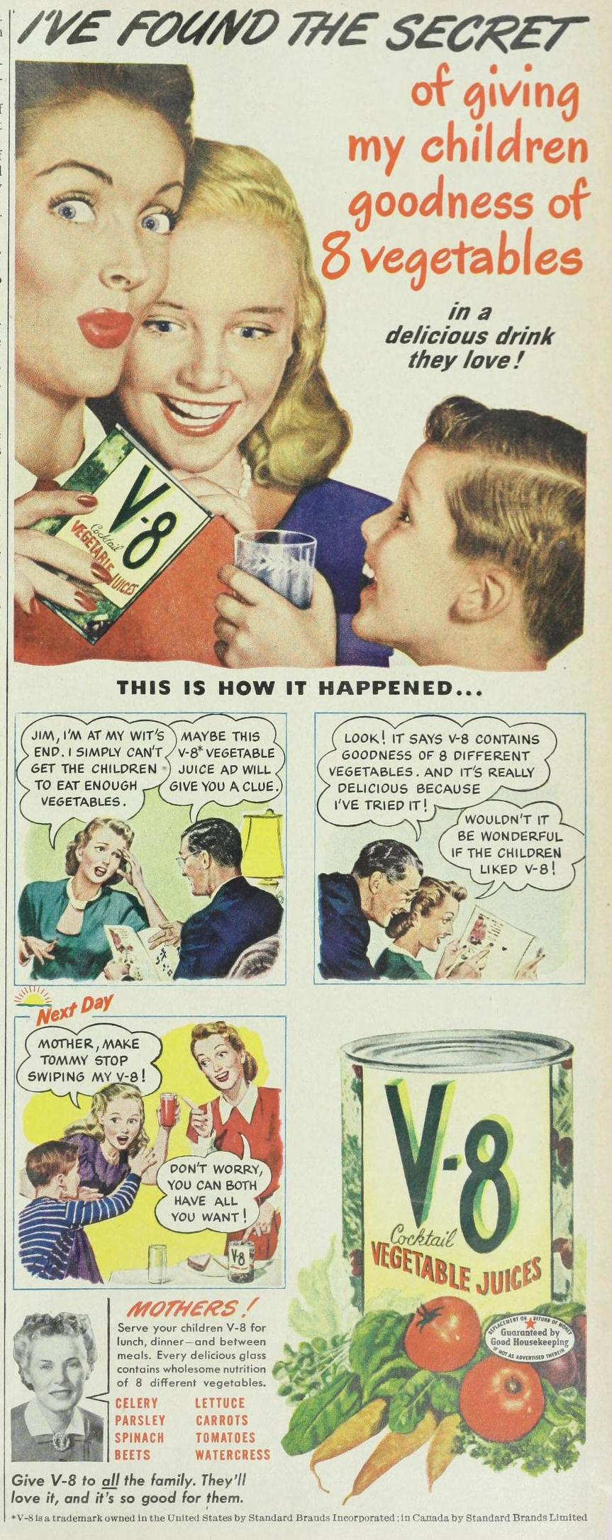 Title: The Ladies' home journal Year: 1889 (1880s) Authors: Wyeth, N. C. (Newell Convers), 1882-1945 Subjects: Women's periodicals Janice Bluestein Longone Culinary Archive Publisher: Philadelphia : (s.n.) Text Appearing Before Image: • • of giving my children qoodness of 3 vegetables in a delicious drink they love! THIS IS HOW IT HAPPENED.. Text Appearing After Image: Give V-8 to all the family. Theylllove it, and its so good for them. • V-8 Is a trademark owned in the United States by Standard Brands Incorporated; In Canada by Standard Brands Limited 188 LADTKS HOME JOURNAL May, 19t Everybody in the family Loves thatKitchenAid !